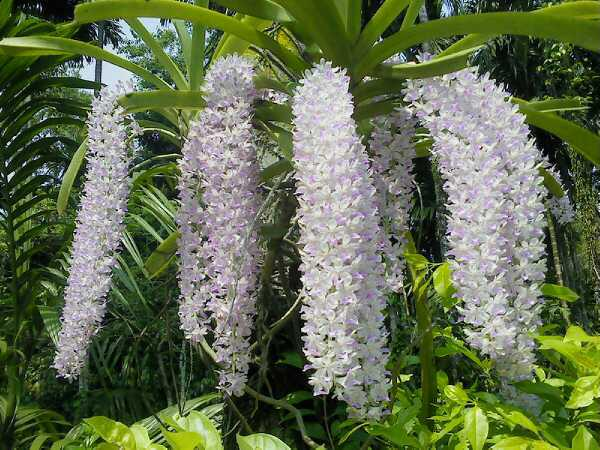 Rhynchostylis gigantea (Assam)